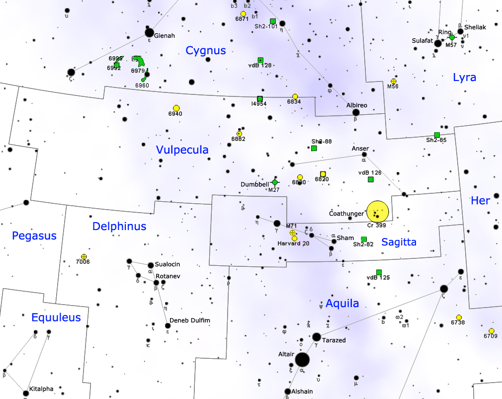 Map of Vulpecula and Sagitta